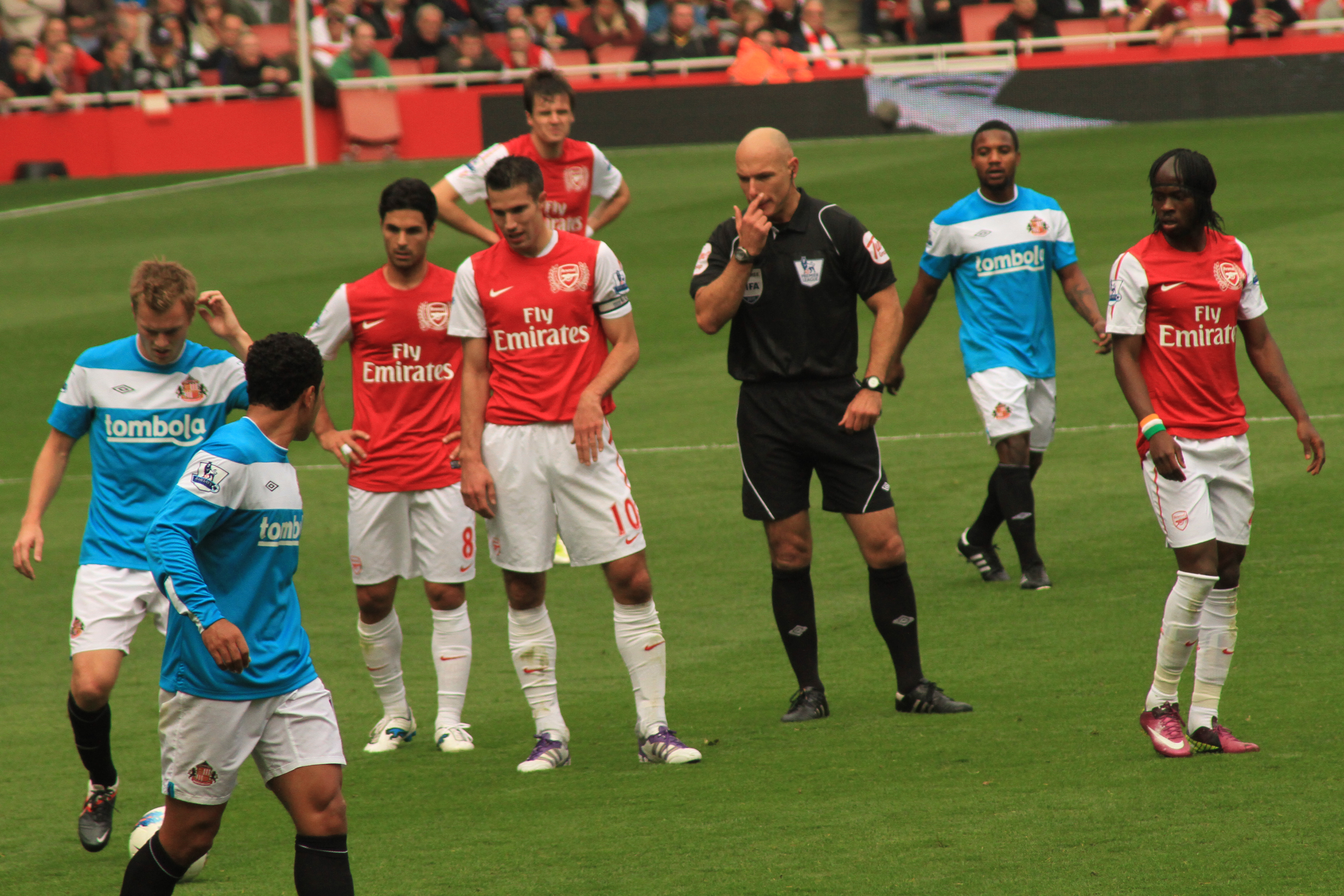 Mikel Arteta (8), Robin van Persie (10) and Gervinho (far left) set up a free kick while referee Howard Webb (black) and others look on.